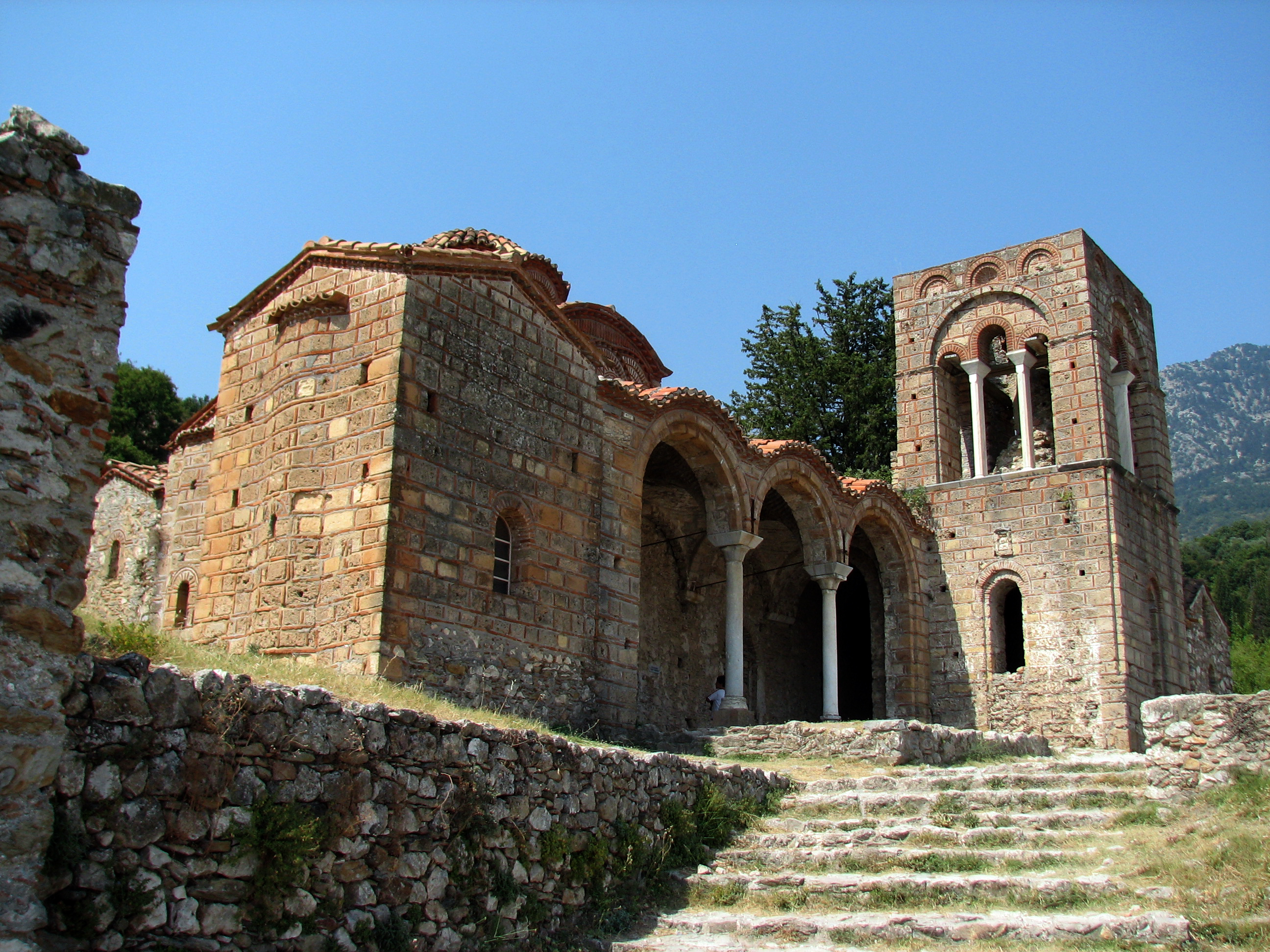 Byzantine city of Mystras,Agia Sofia.